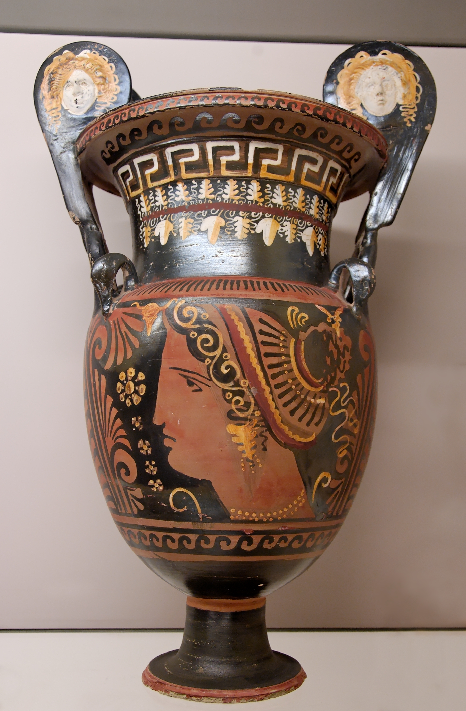 Female head and vine tendril in the Gnathian technique. Apulian red-figured volute-krater, ca. 330–320 BC.